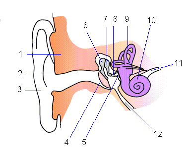 anatomy of the ear 1 - skull 2 - ear canal 3 - pinna 4 - tympanum 5 - fenestra ovalis 6 - malleus 7 - incus 8 - stapes 9 - labyrinth 10 - cochlea 11 - auditory nerve 12 - eustachian tube